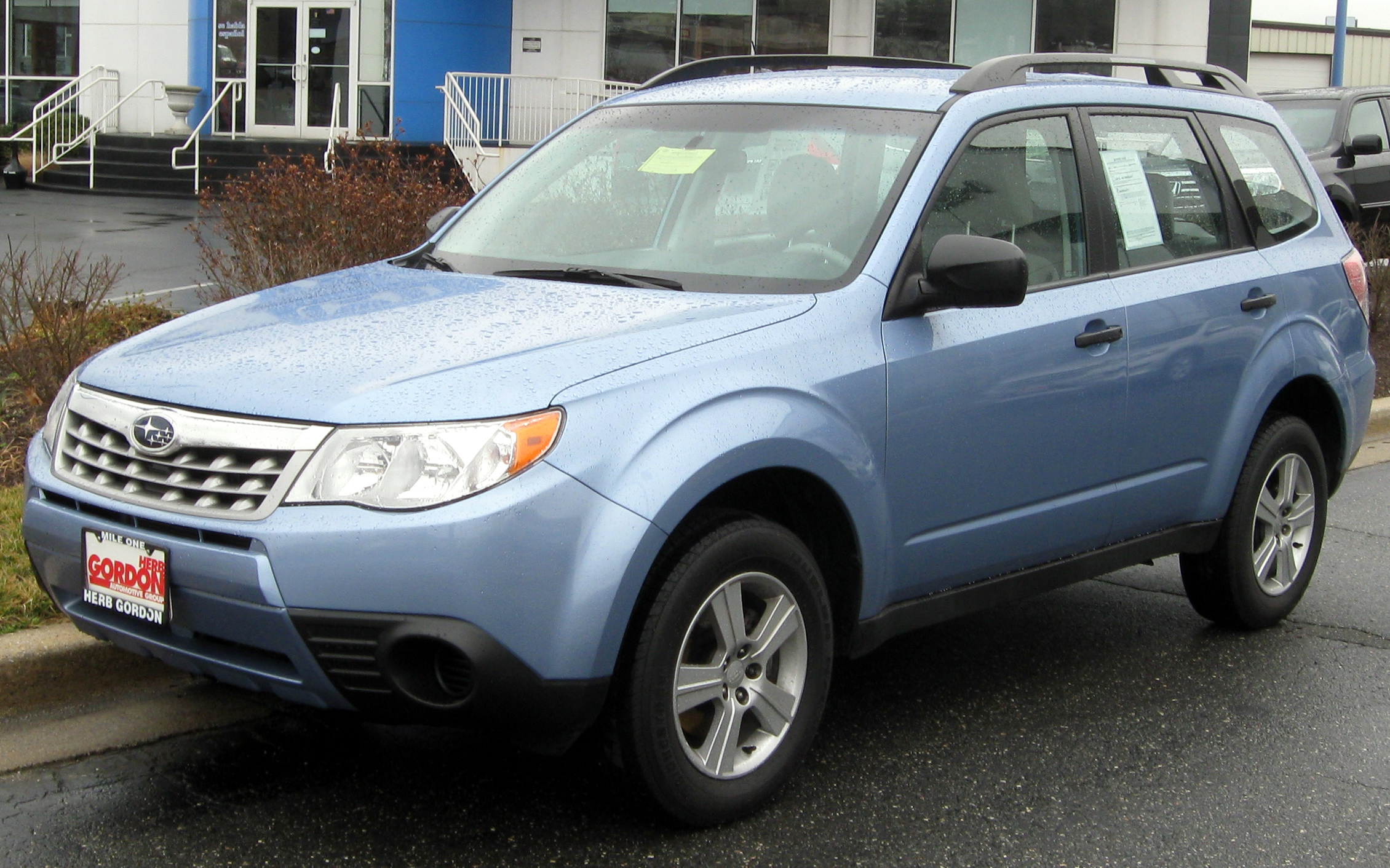 2011 Subaru Forester photographed in Silver Spring, Maryland, USA.